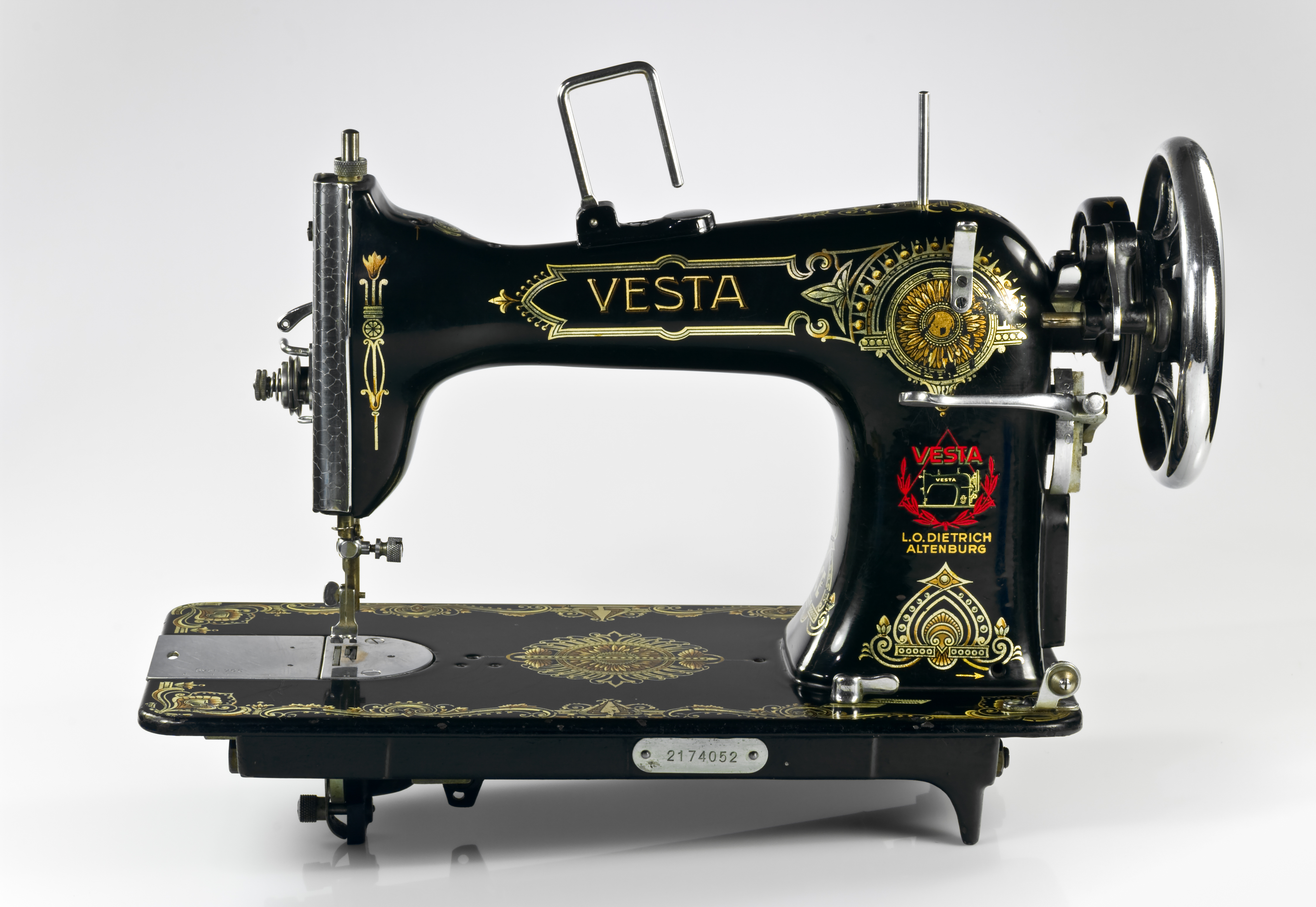 Vesta sewing machine (L.O. Dietrich Altenburg)